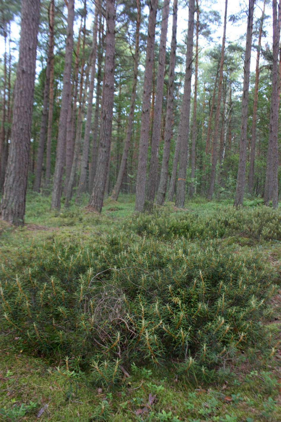 Ledum palustre, Słowiński Park Narodowy,wood between seashore (Baltic sea) and lake Jezioro Sarbsko